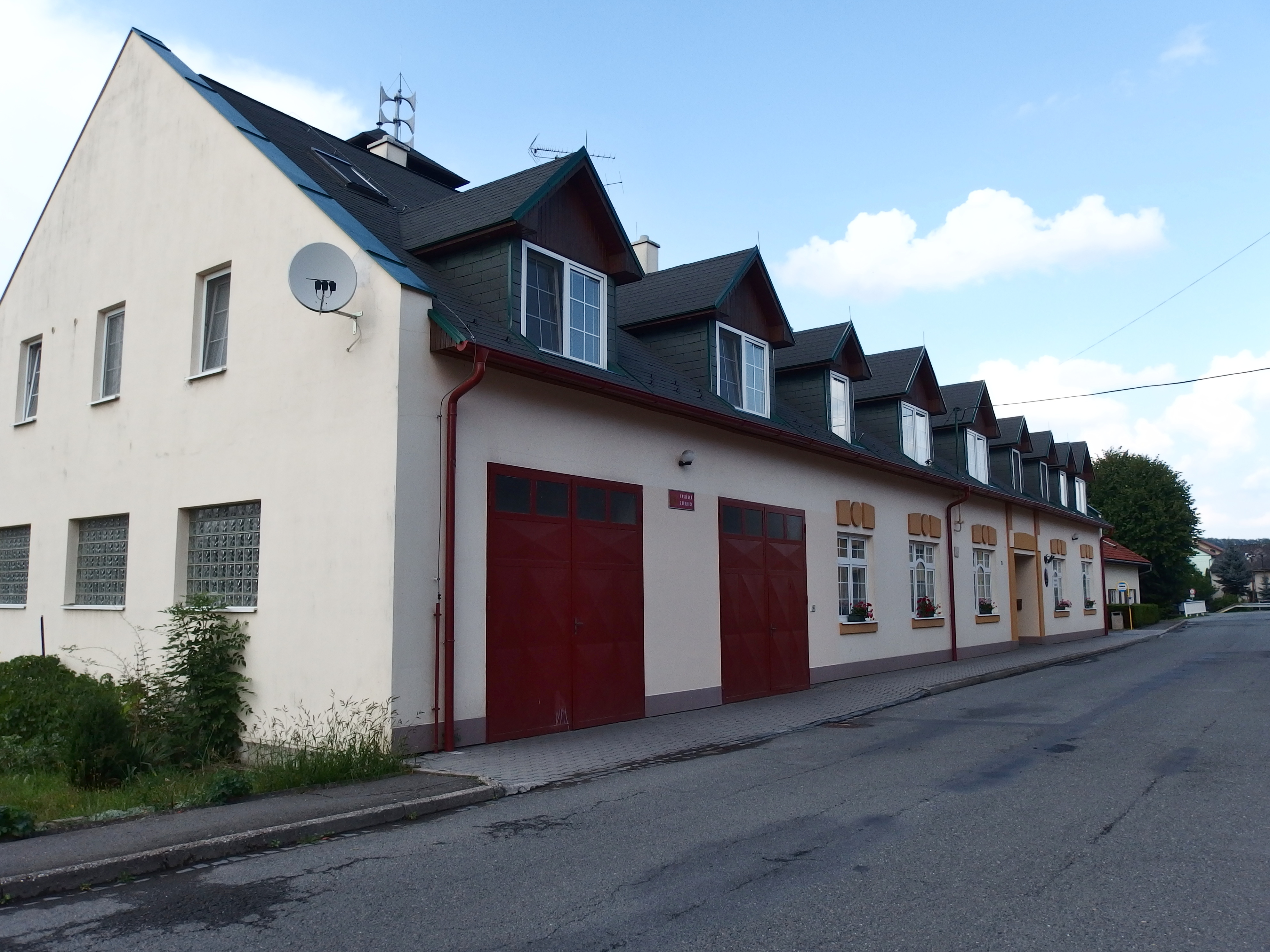 Býškovice, Přerov District, Czech Republic.